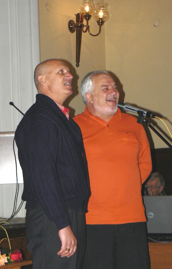 Bulgarian folklore singers Mitevi Brothers - Vladimir and Mitko